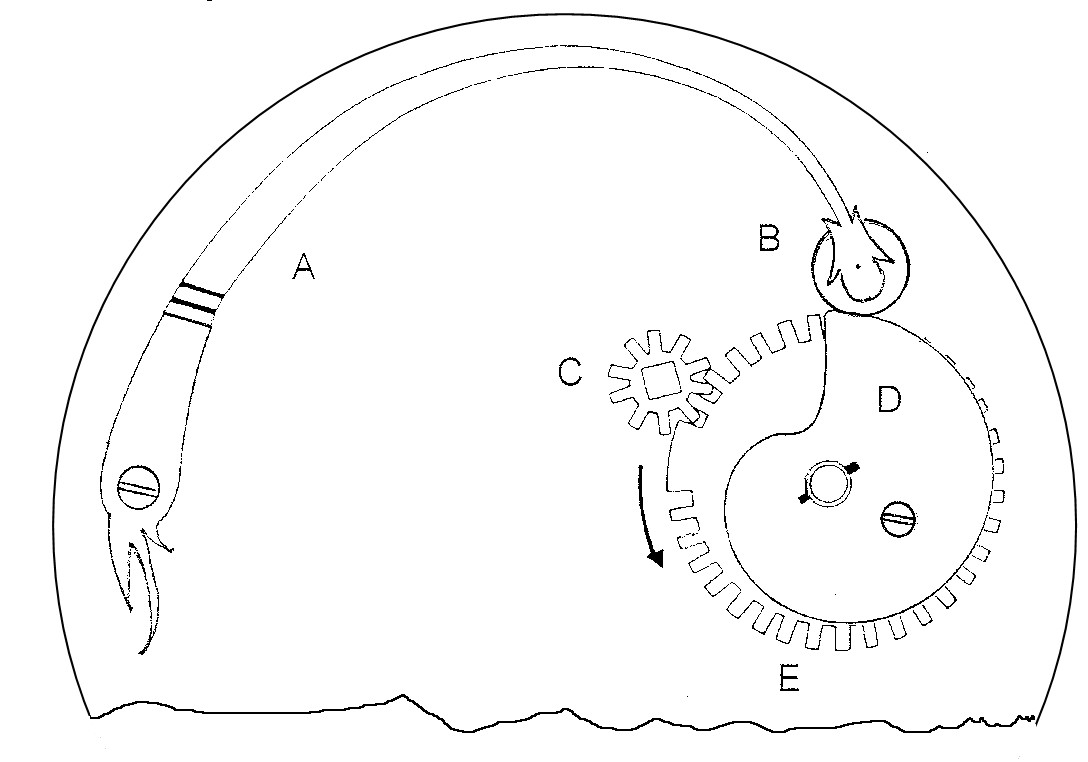 A stackfreed, a cam mechanism used in the earliest spring-driven clocks and watches to equalise the force of the mainspring, to improve timekeeping.